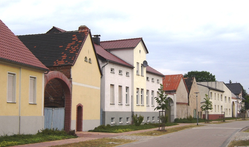 Friedrichstraße in Dannigkow (Saxony-Anhalt)